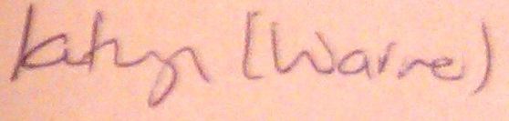 The signature of the British historian Kathryn Warner.